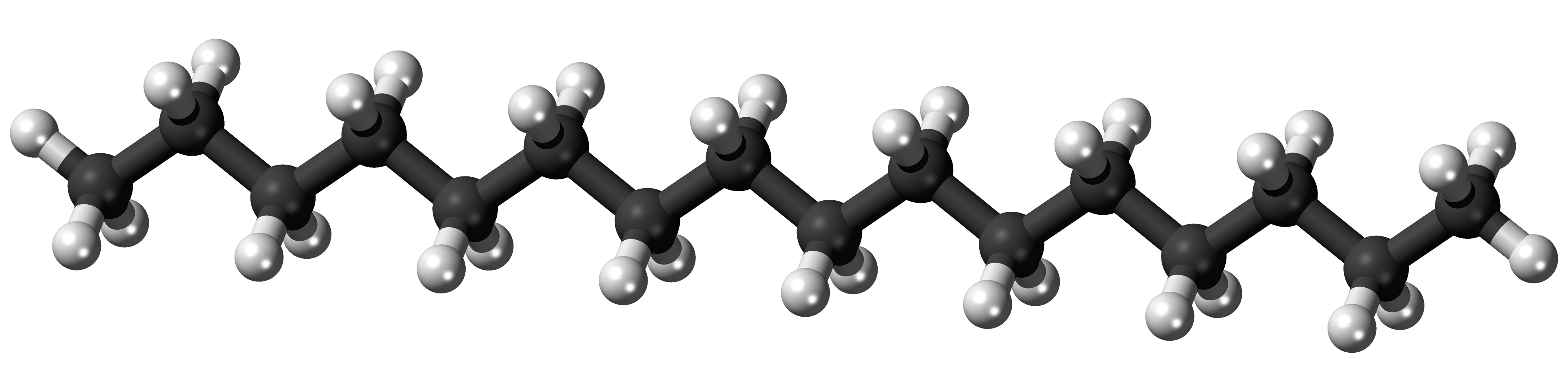 Ball-and-stick model of the hexadecane molecule, an alkane with 16 carbon atoms. Color code: Carbon, C: black Hydrogen, H: white